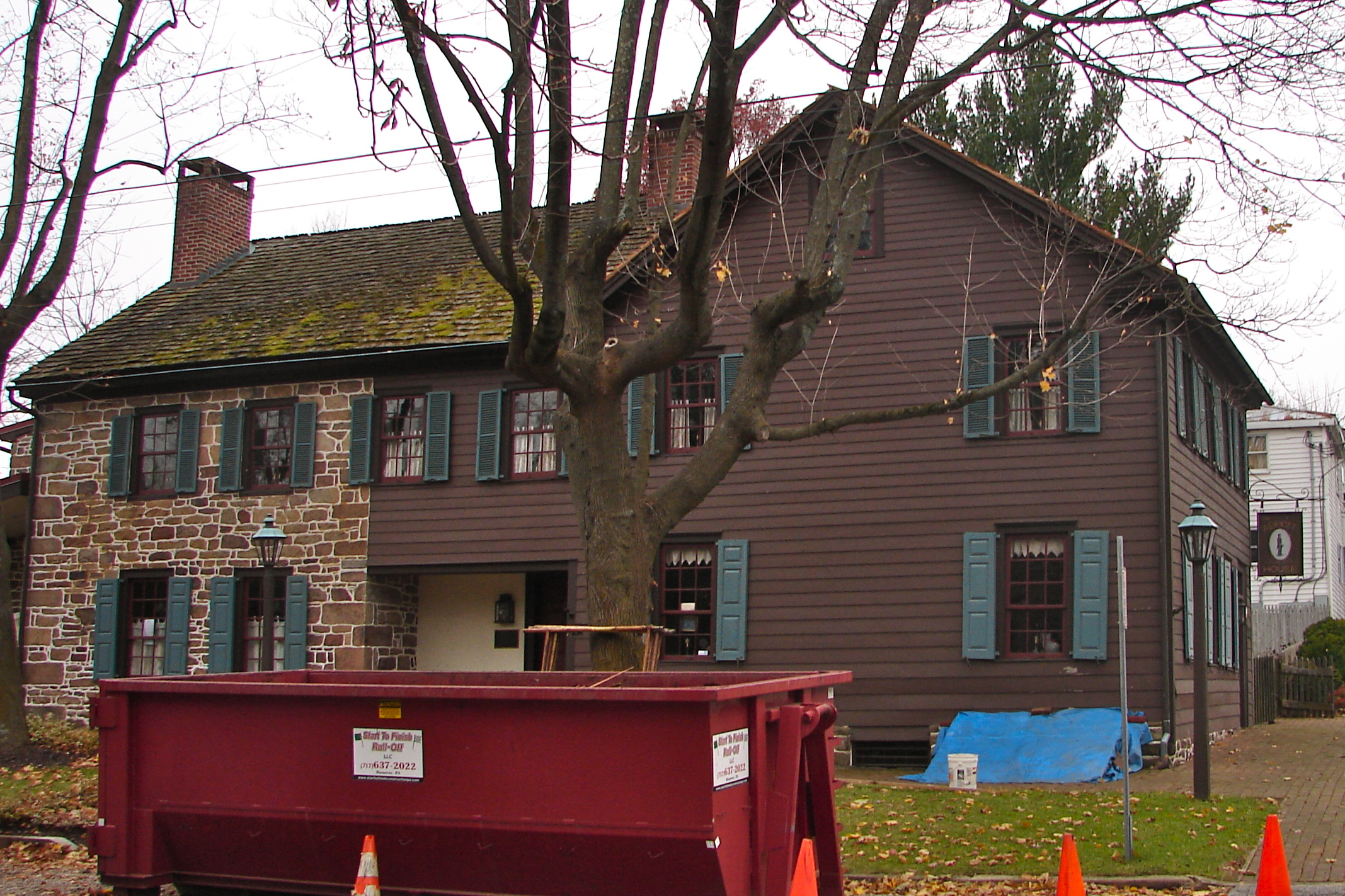 John Abbott House on the NRHP since February 22, 1980. On East King Street (US 30) in Abbottstown, Adams County, Pennsylvania. Built 1737.